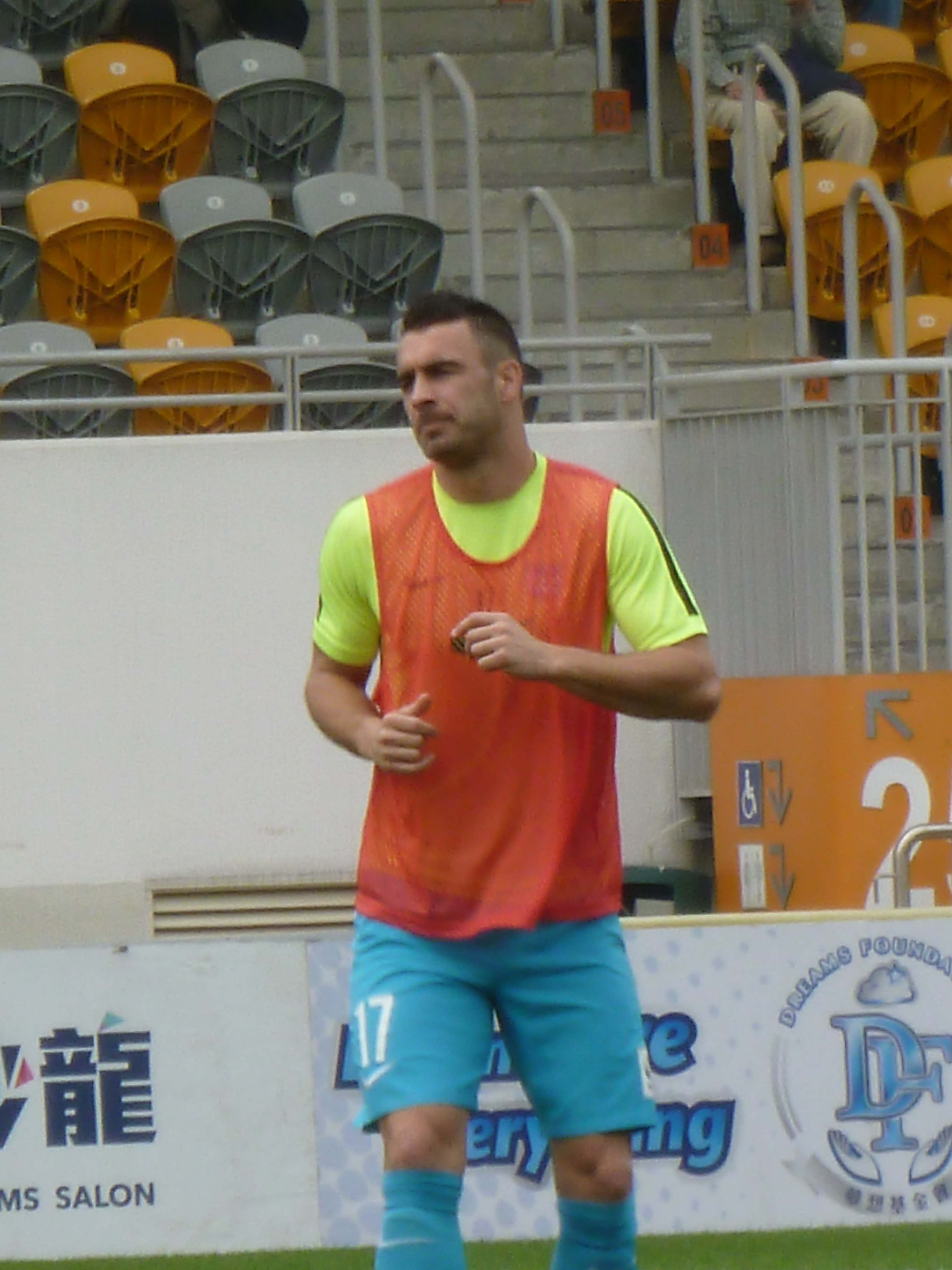 Rufino Segovia del Burgo (19 Mar 2016, Hong Kong League Cup, Kitchee vs Eastern, Mong Kok Stadium) 中文（香港）: 羅勳奴 (19 Mar 2016, 香港聯賽盃, 傑志 vs 東方, 旺角大球場)